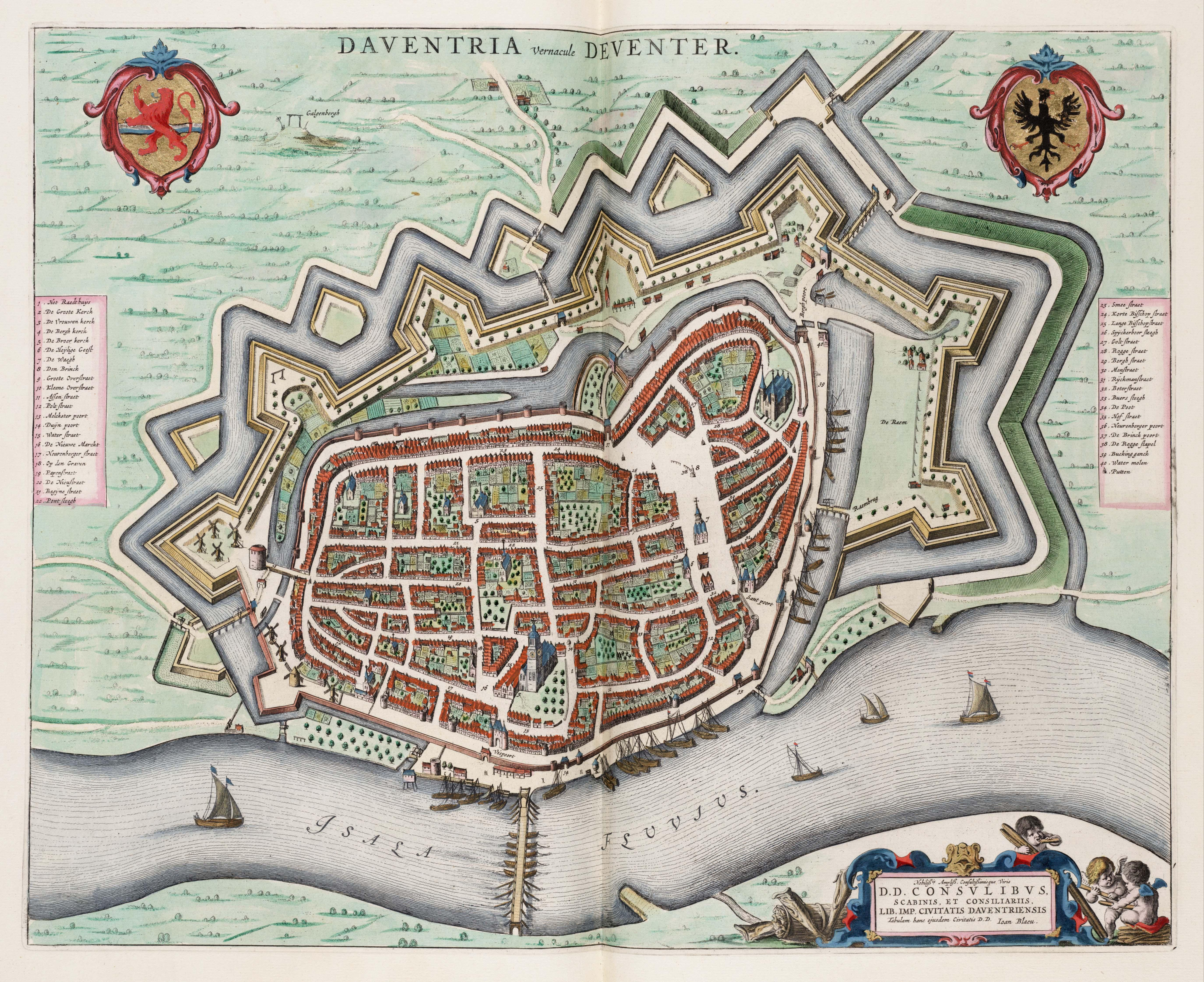 Map of Deventer